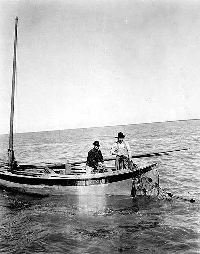 From John Cobb field notebook: Gill netting in the Nushagak. 1917 Subjects (LCTGM): Fishermen--Alaska--Nushagak River; Fishing industry--Alaska--Nushagak River; Fishing boats--Alaska--Nushagak River Subjects (LCSH): Gillnetting--Alaska--Nushagak River; Salmon fisheries--Alaska--Nushagak River; Nushagak River (Alaska)